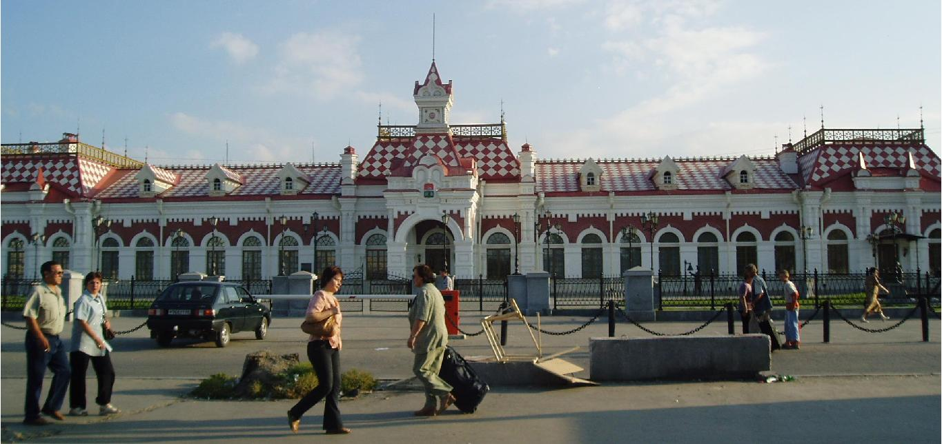 The old railwaystation building (1881) of the Russian city of Yekaterinburg. The main building is located to the right Image taken in summer 2005